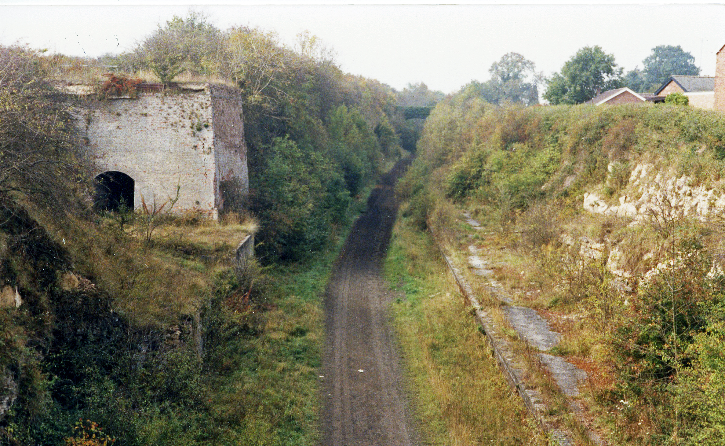 Castle Bytham: site/remains of station, 1986. View westward, towards Saxby: ex-Midland Saxby - Bourne line, Midland & Great Northern (M&GN) from just east of here, closed entirely 2/3/59.